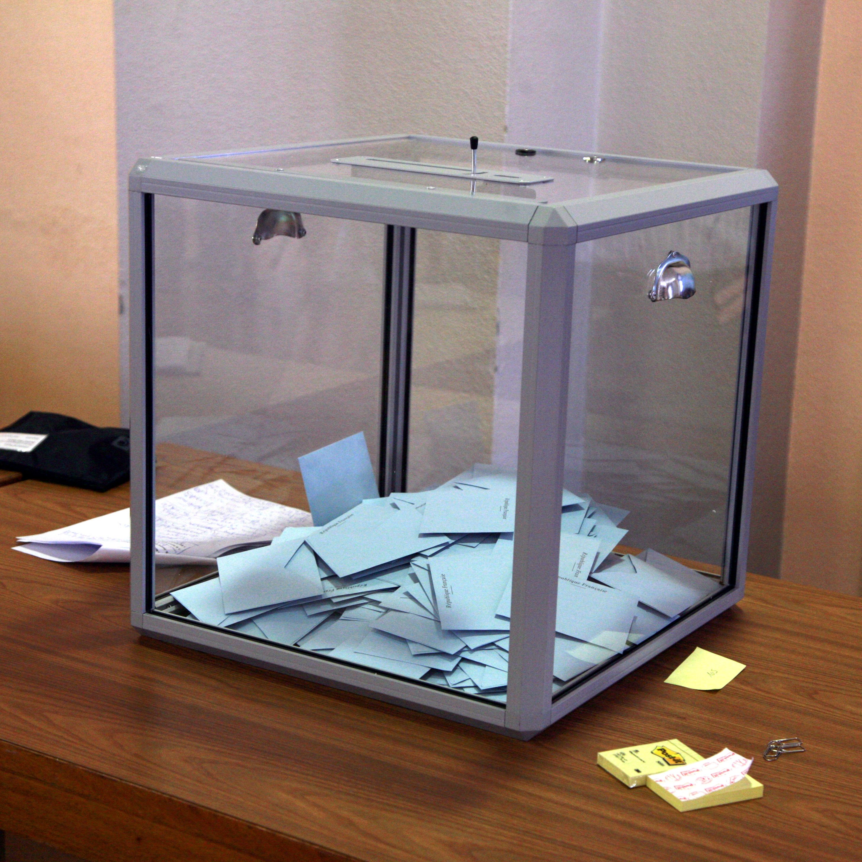 Regulation transparent voting box for the French presidential election of 2007